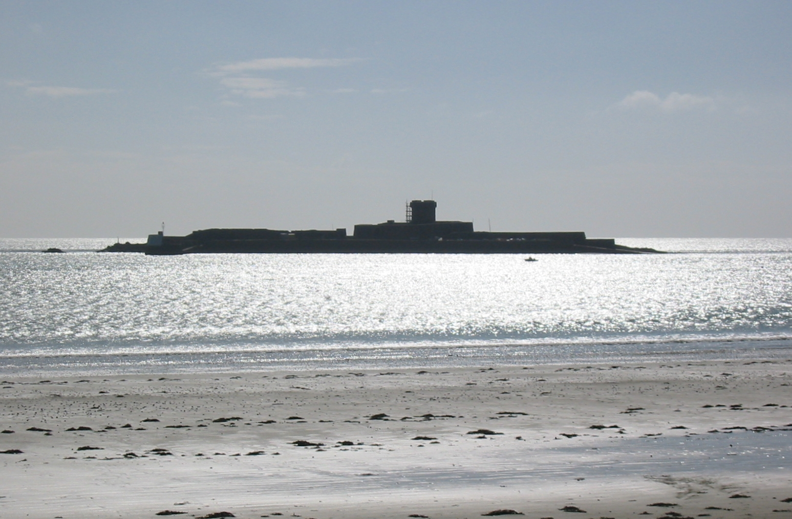 Jersey Nrf: Jèrri